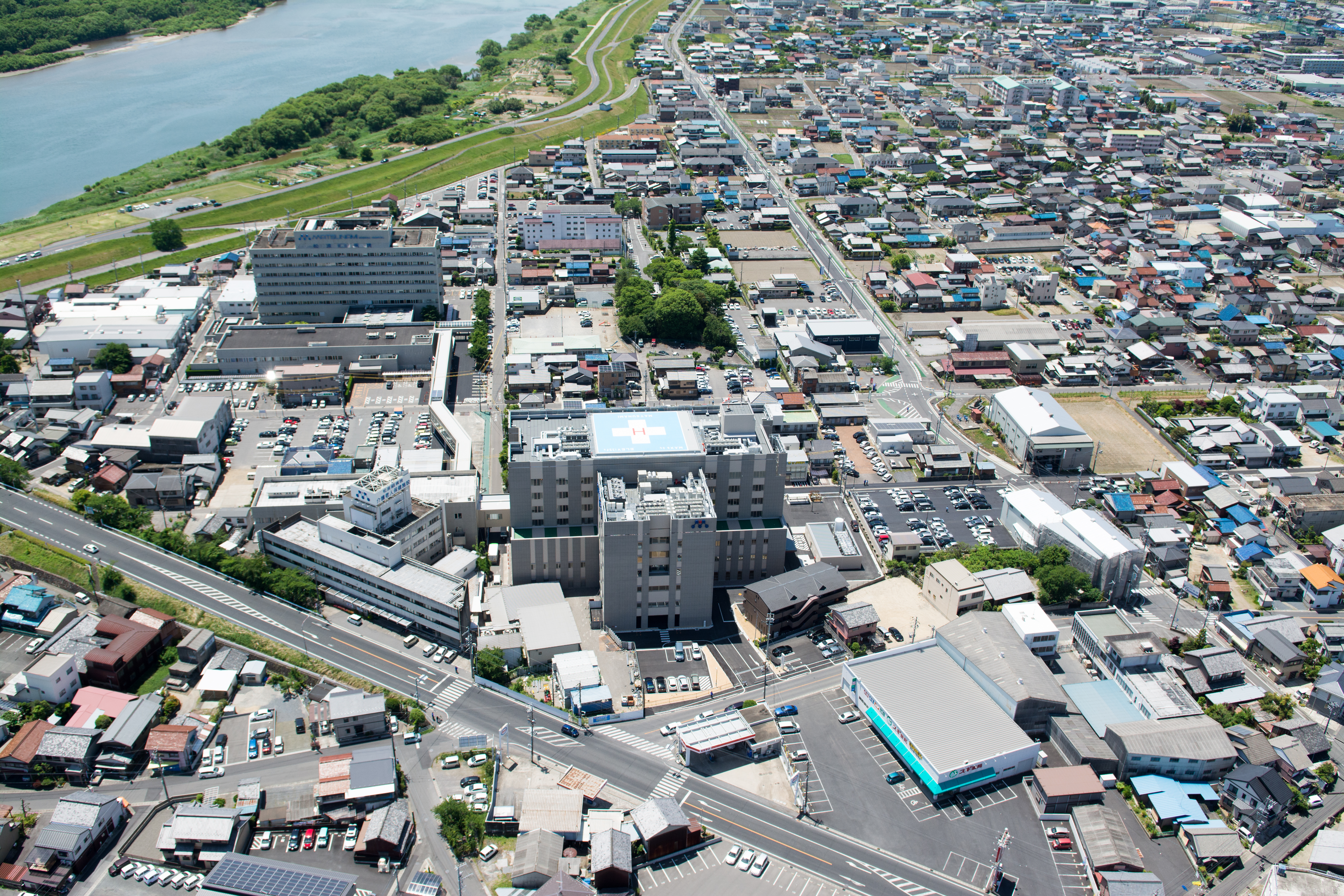 An aerial view of Matsunami General Hospital and its surroundings in Gifu Prefecture